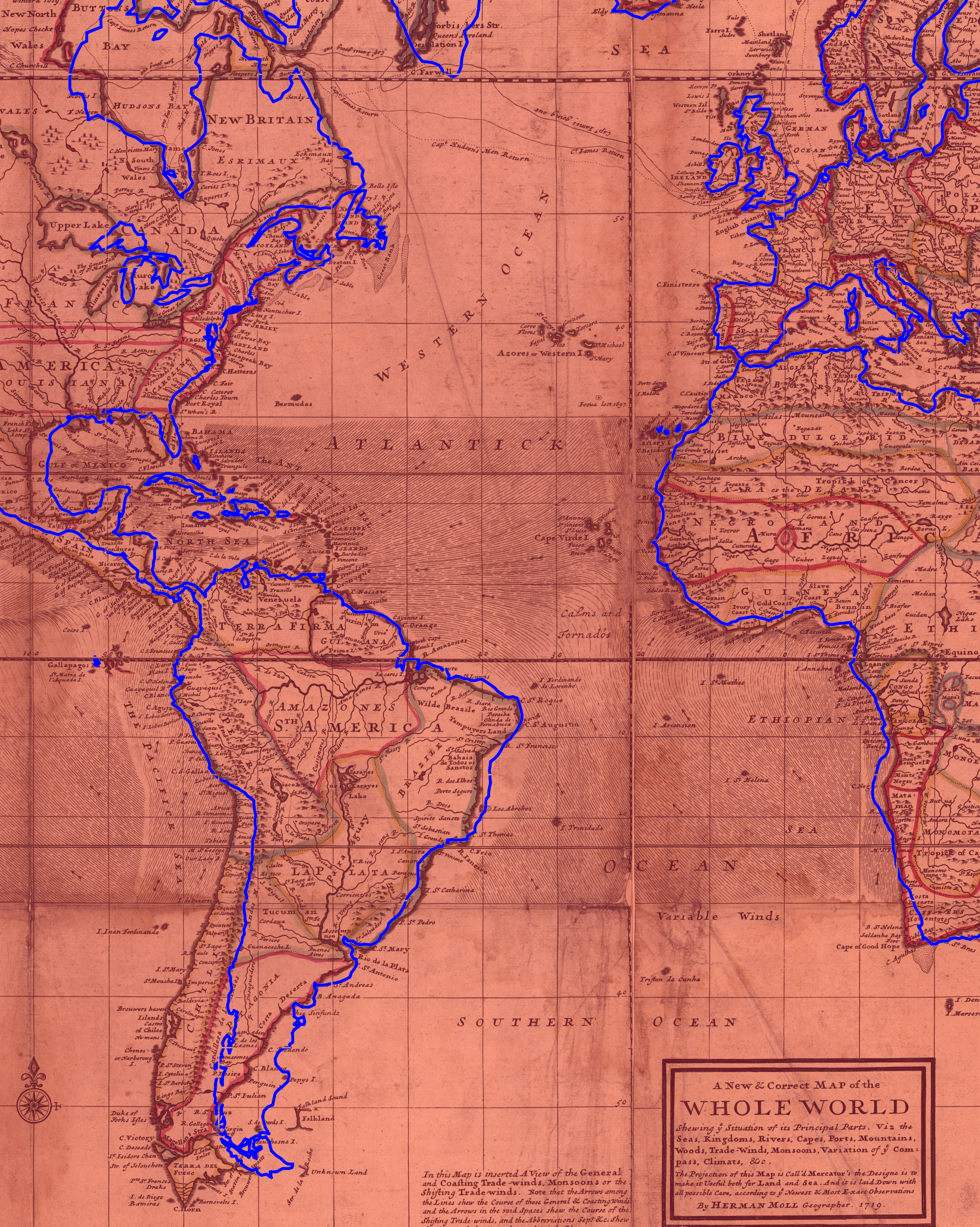 Atlantic Ocean: alignment of early 18th-century and a modern map outline (blue). Cropped from File:Moll World Map 1719 Alignment with modern map outline.jpg